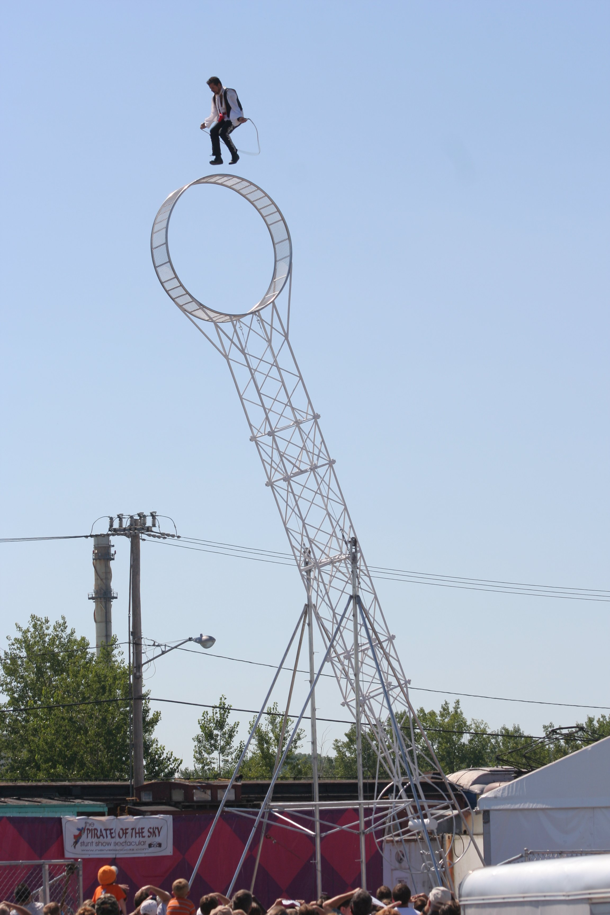 "Pirates of the Sky" aerialists act, performing on the Wheel of Death at the 2008 New York State Fair.